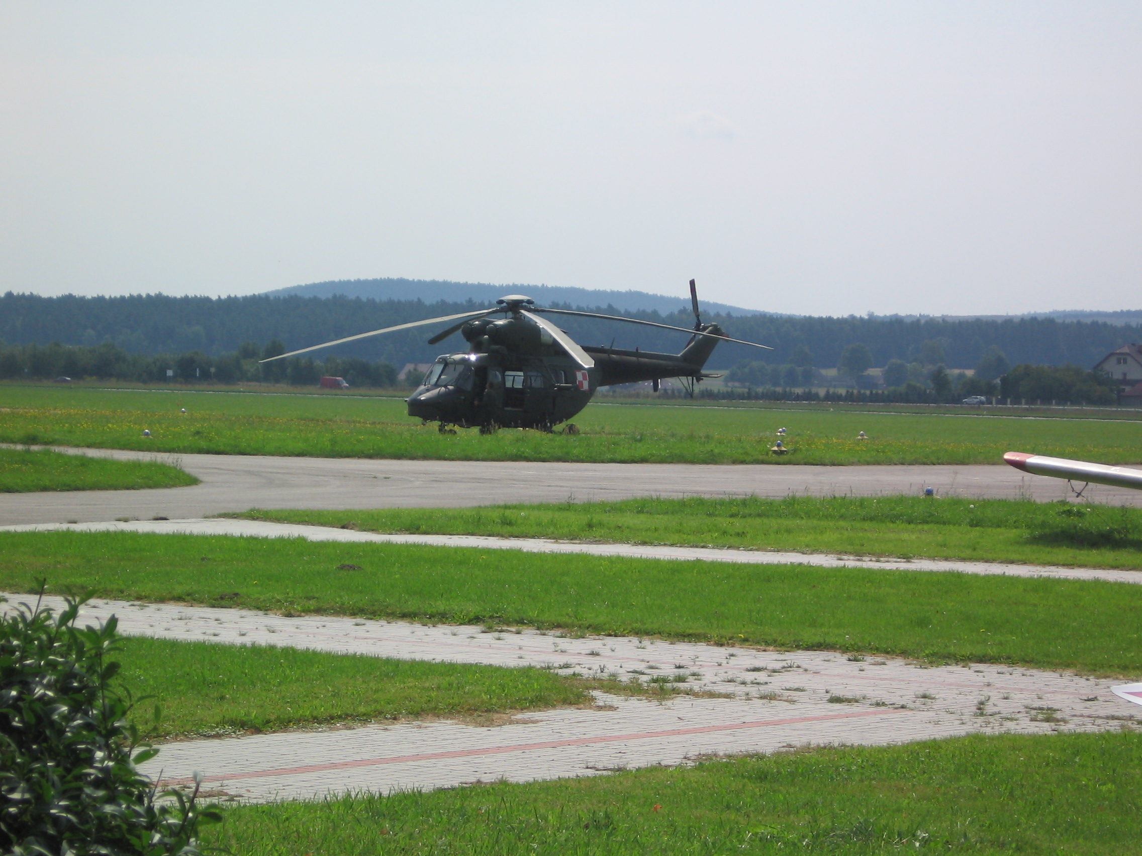 Aerodrome Kielce-Masłów